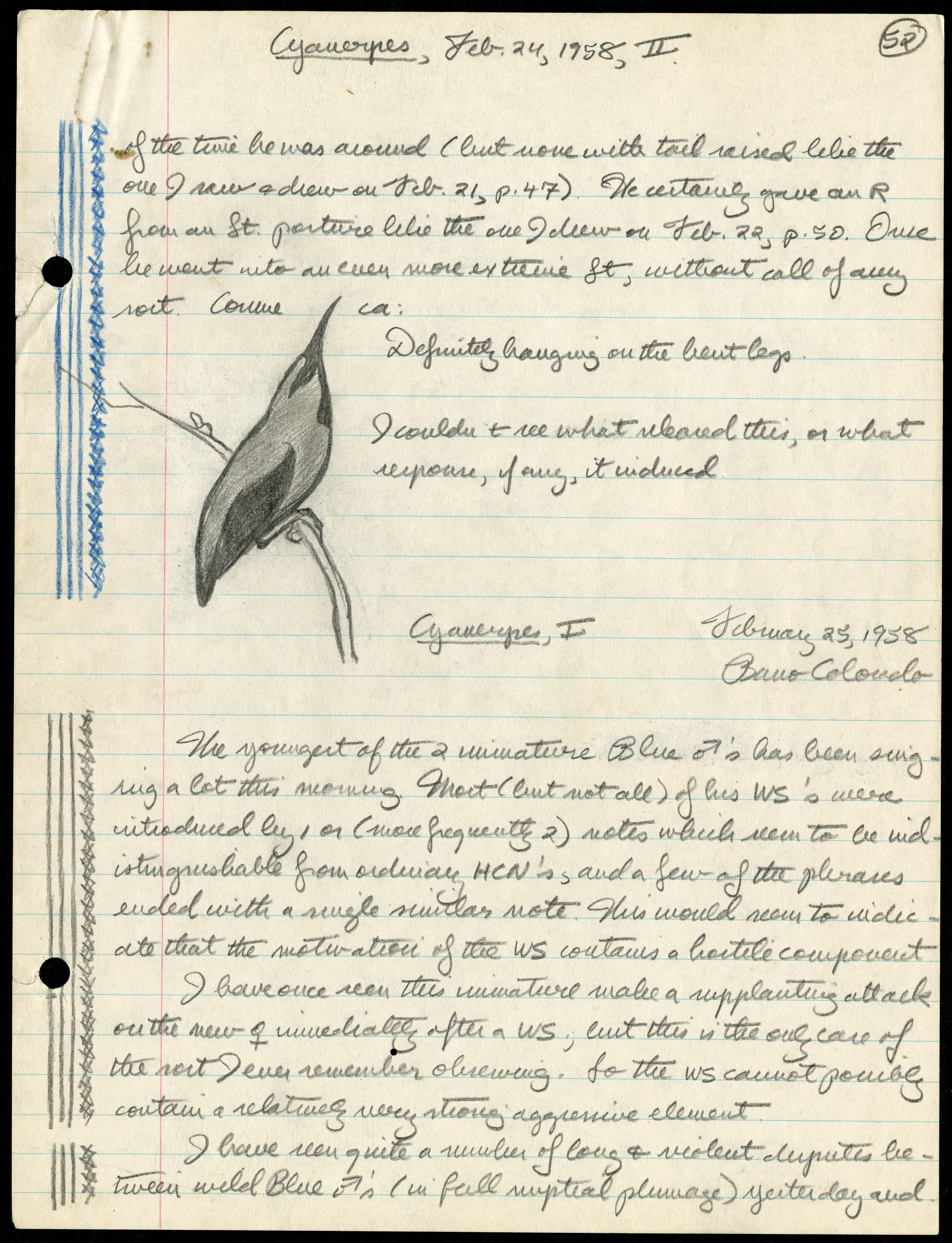 Creator: Martin H. Moynihan Local number: SIA2012-1872 Summary: Acc 01-096, Box 1, Folder 10; Page from Martin H. Moynihan's field notes on Cyanerpes or Honeycreepers, page 52, February 24, 1958. These observations were made on Barro Colorado Island, Panama, from 1957 to 1963. Dates: 1958 Repository: Smithsonian Institution Archives Related blog post: A Behaviorist in Panama View more collections from the Smithsonian Institution.